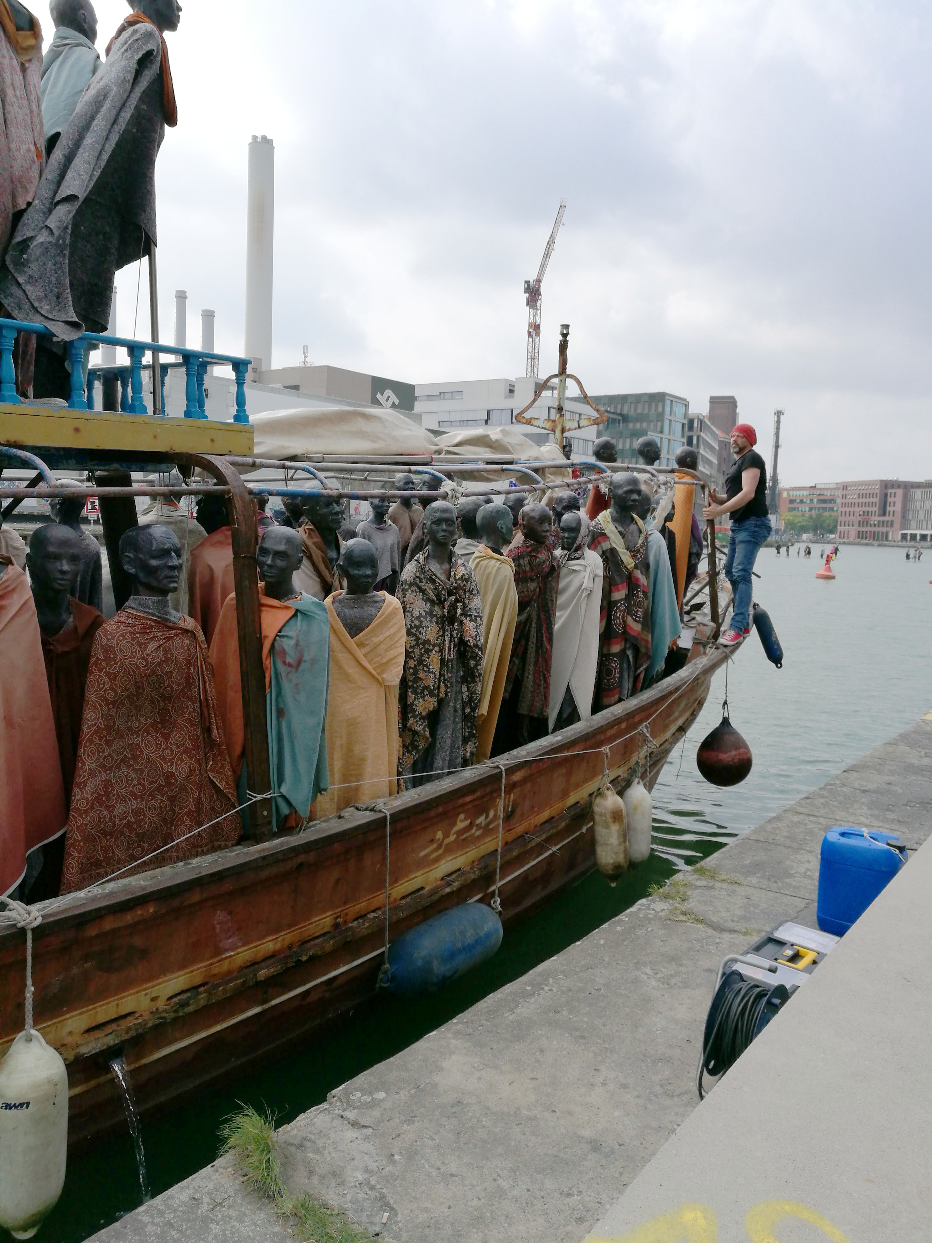 Refugues Boat Project